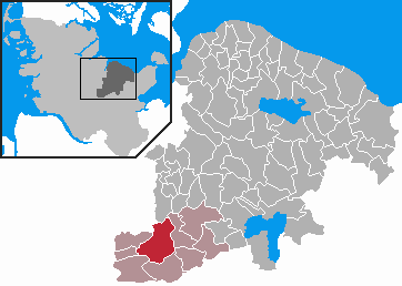 This map shows the area of the Gemeinde (municipality) Schillsdorf in the Kreis (district) Plön, Schleswig-Holstein, Germany.